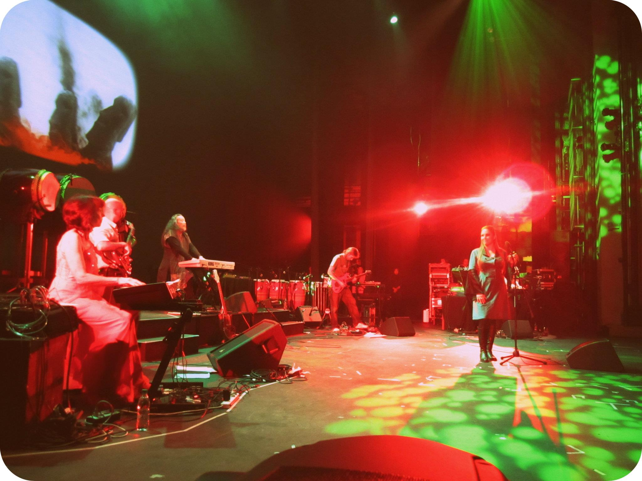 Maika Ceres on stage with Kitaro and Suzanne Ciani, March 2012.